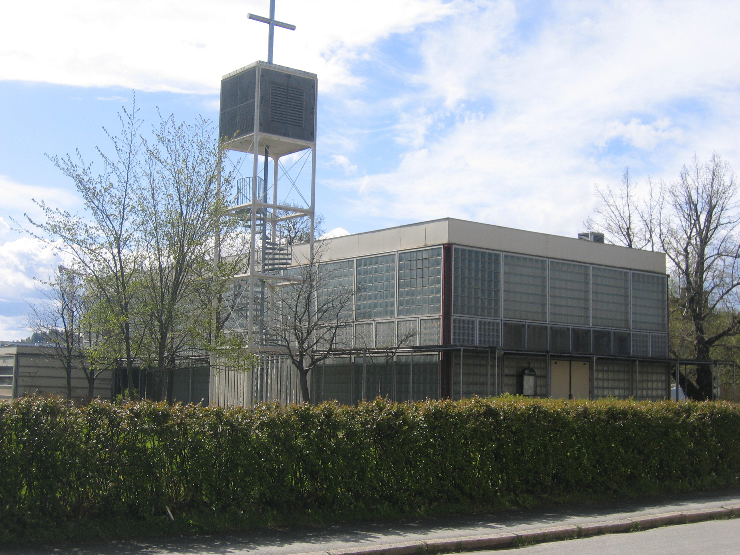 St. Olav catholic church in Trondheim, Norway. (Buildt in 1973).